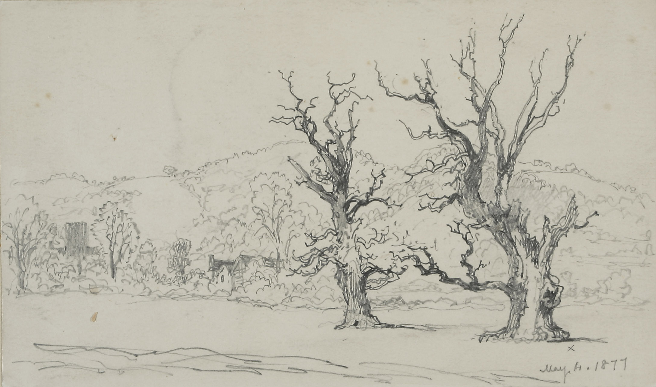 From the Lines family sketchbook, in the collection of the Royal Birmingham Society of Artists, Birmingham, England. See Rediscovering the Lines Family - Exhibition catalogue - 2009 Andy Mabbett, User:Pigsonthewing, is in the process of identifying and categorising these images (assistance welcome). This paragraph will be removed once that's done for this image.